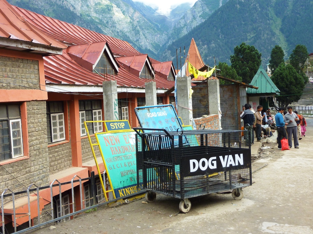 I took this photo on a trip through northern India in 2010